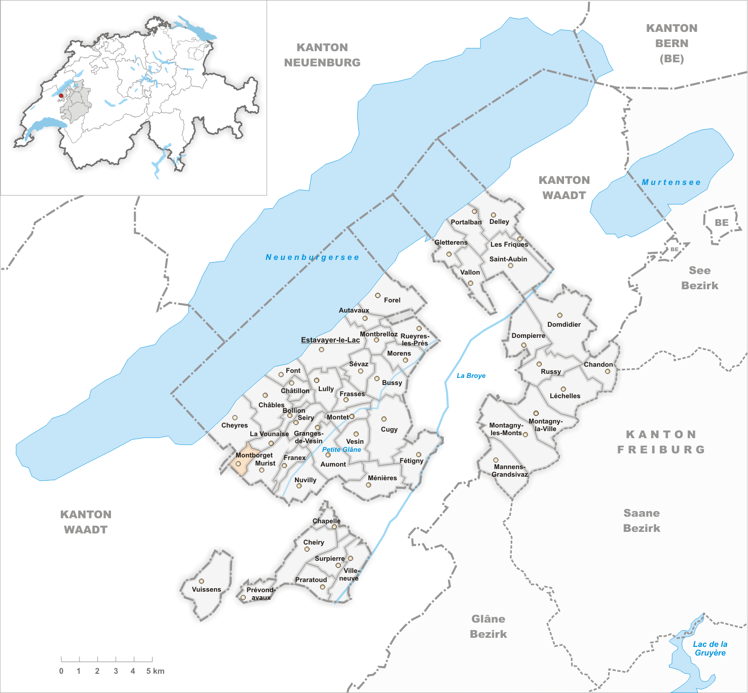 Municipality Montborget Artist: Tschubby